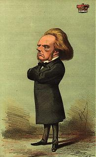 Caricature of George John Douglas Campbell, 8th and 1st Duke of Argyll (30 April 1823 – 24 April 1900). Caption read "God bless the Duke of Argyll". He was a prominent United Kingdom Liberal politician as well as a writer on science, religion, and the politics of the 19th century.